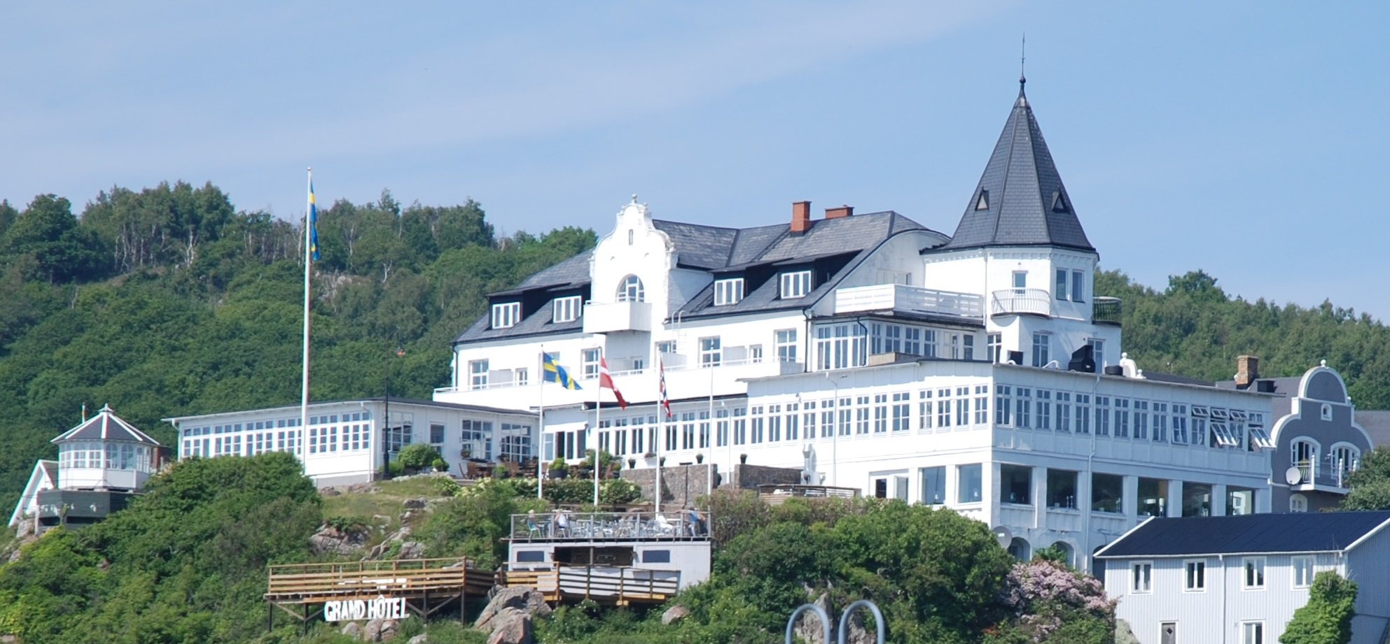 Grand Hotel Dahlberg, Mölle